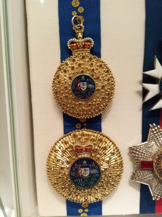 Knight of the Order of Australia